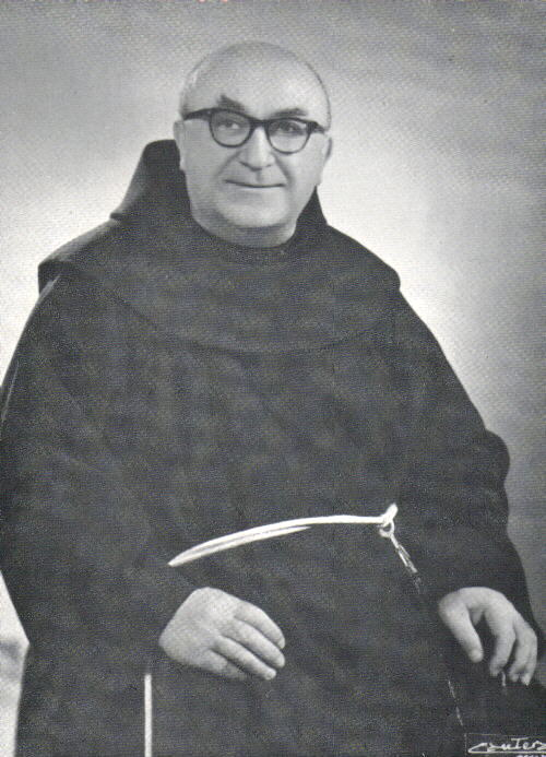 Balic